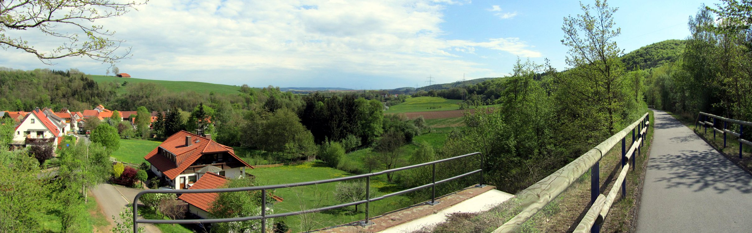 Germany / Hesse: Cycle Way "Ederseebahn-Radweg": view dowen to village "buhlen"